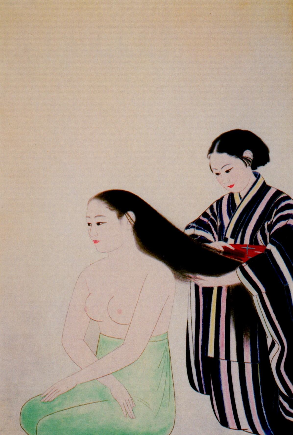 Hair, by Kobayashi Kokei, Eisei Bunko, Bunkyō, Tokyo, Japan